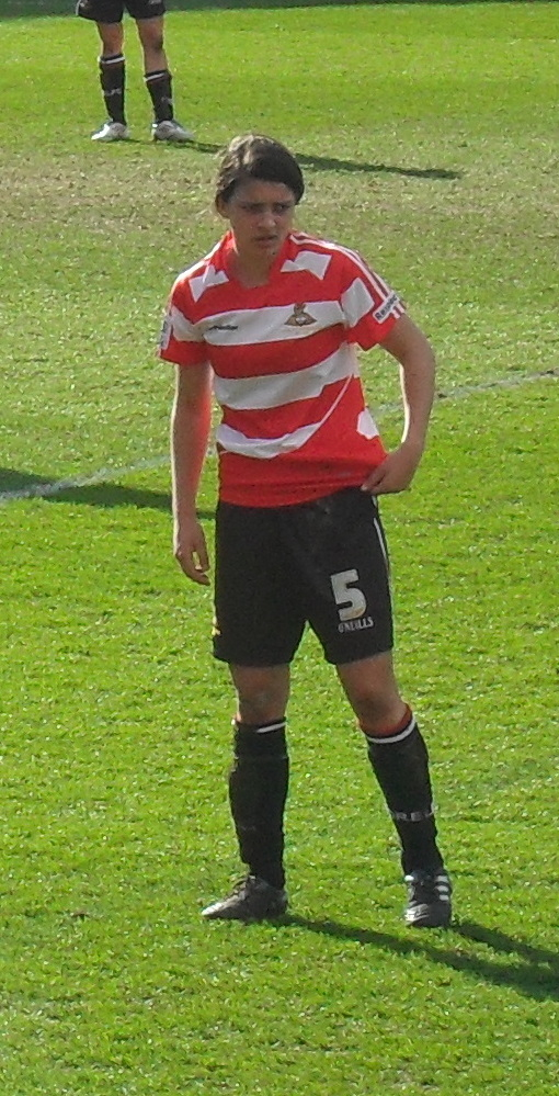 English football player Jess Sigsworth playing for Doncaster Rovers Belles in 2011